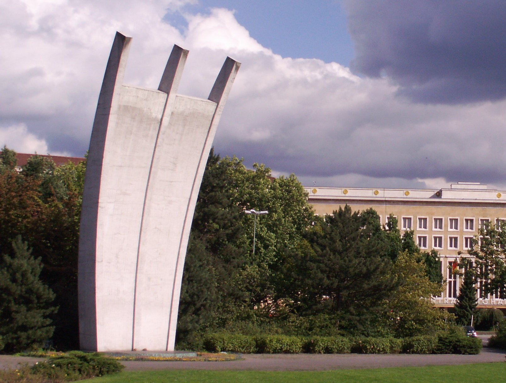 Airport Berlin Tempelhof The Berlin Airlift Memorial 2008 photo Wolfgang Pehlemann PICT0083 - Junkers Ju-52 and Douglas C-47 lifted off from Berlin's Tempelhof Airport Thursday 30 Oct 2008 as last flights before the airport closed at midnight - end to an era of aviation that has pointed the Cold War period too.